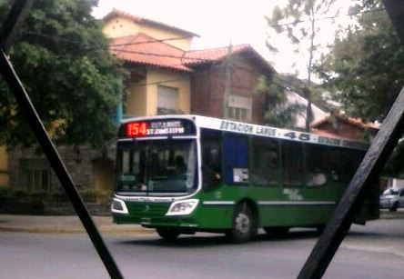 Unidad de la Linea de la Linea 154